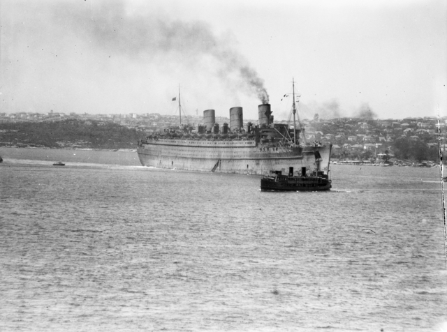 SYDNEY, AUSTRALIA. 1943-02-27. HMT QUEEN MARY PREPARING TO ANCHOR IN SYDNEY HARBOUR WITH UNITS OF THE 9TH AUSTRALIAN DIVISION ABOARD ON THEIR RETURN FROM THE MIDDLE EAST. THE PHOTOGRAPH WAS TAKEN FROM HMAS AUSTRALIA WHICH ESCORTED THE CONVOY FROM THE SOUTH OF AUSTRALIA.